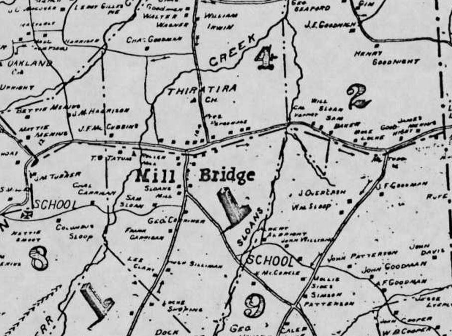 Region of Rowan County, North Carolina called Mill Bridge in 1903 as depicted in C. M. Miller's map. Referenced in the 1979 study, Kerr Mill and the Mill Bridge Community, Rowan County by Bruce S. Cheeseman